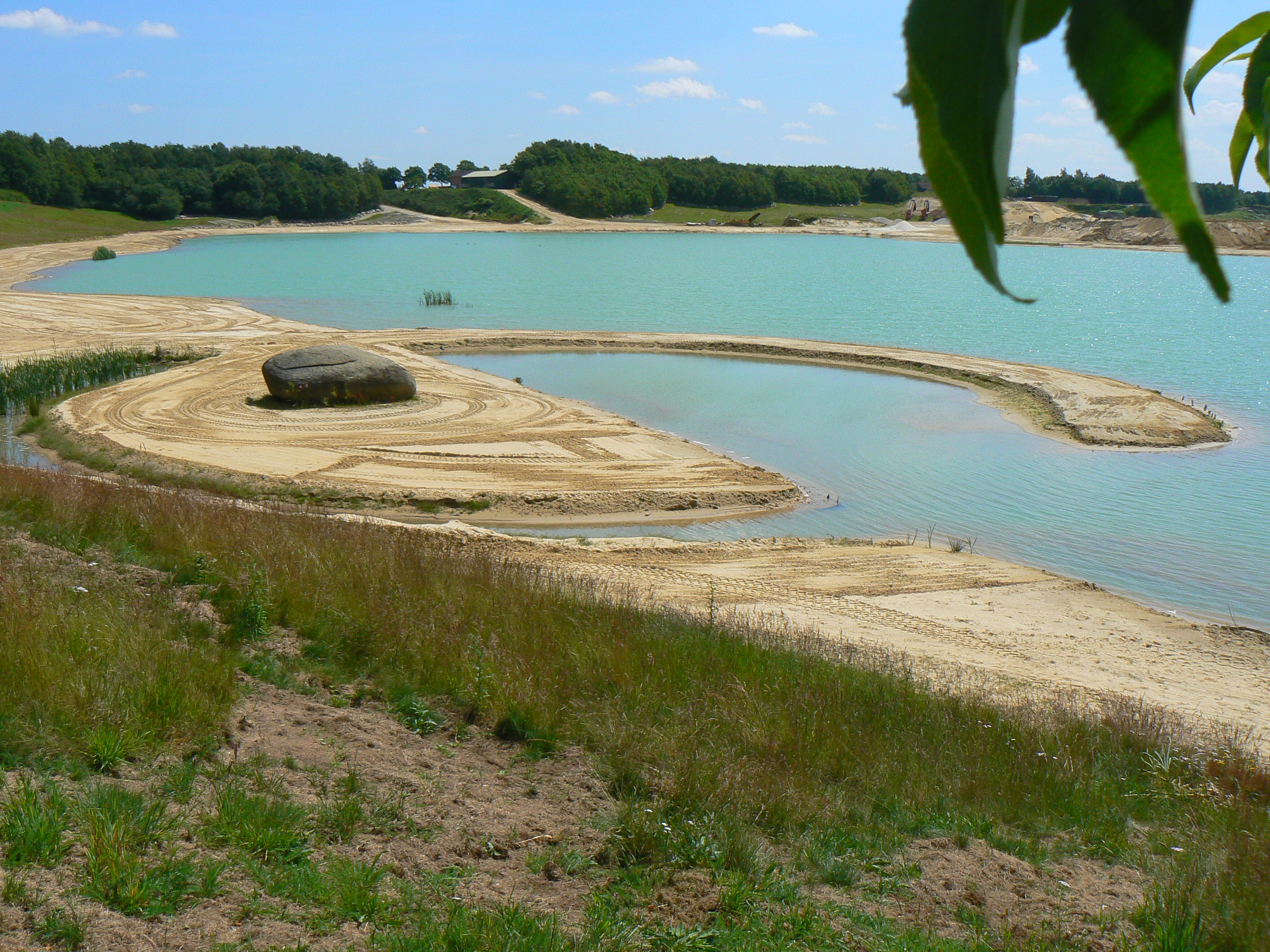 Broken Circle and Spiral Hill (1971) by Robert Smithson in Emmen/The Netherlands